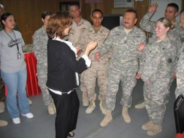 Loretta Sanchez visits troops in Kuwait.